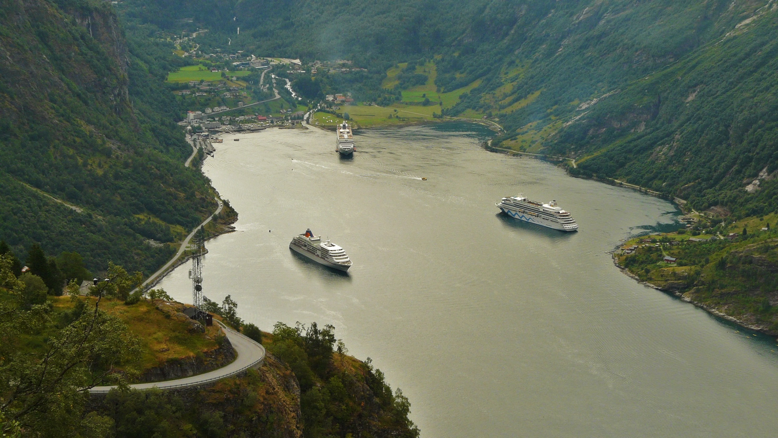 Geiranger at the far end of Geirangerfjord as seen from Ørnesvingen in 2008 August. Especially during the tourist season it is much visited by numerous cruise liners.